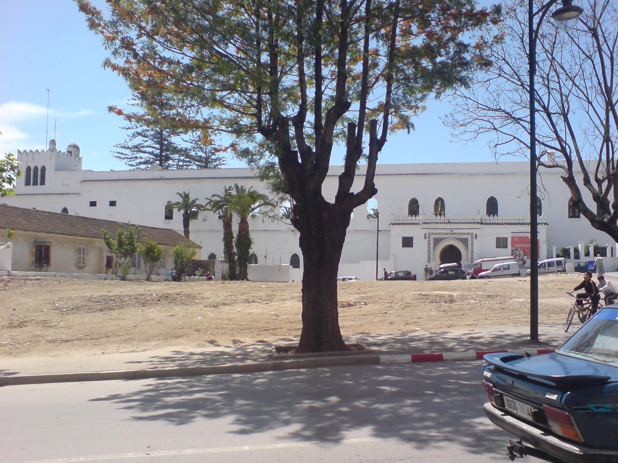 A view of the site of Benchimol Hospital, Tangier, after its demolition.